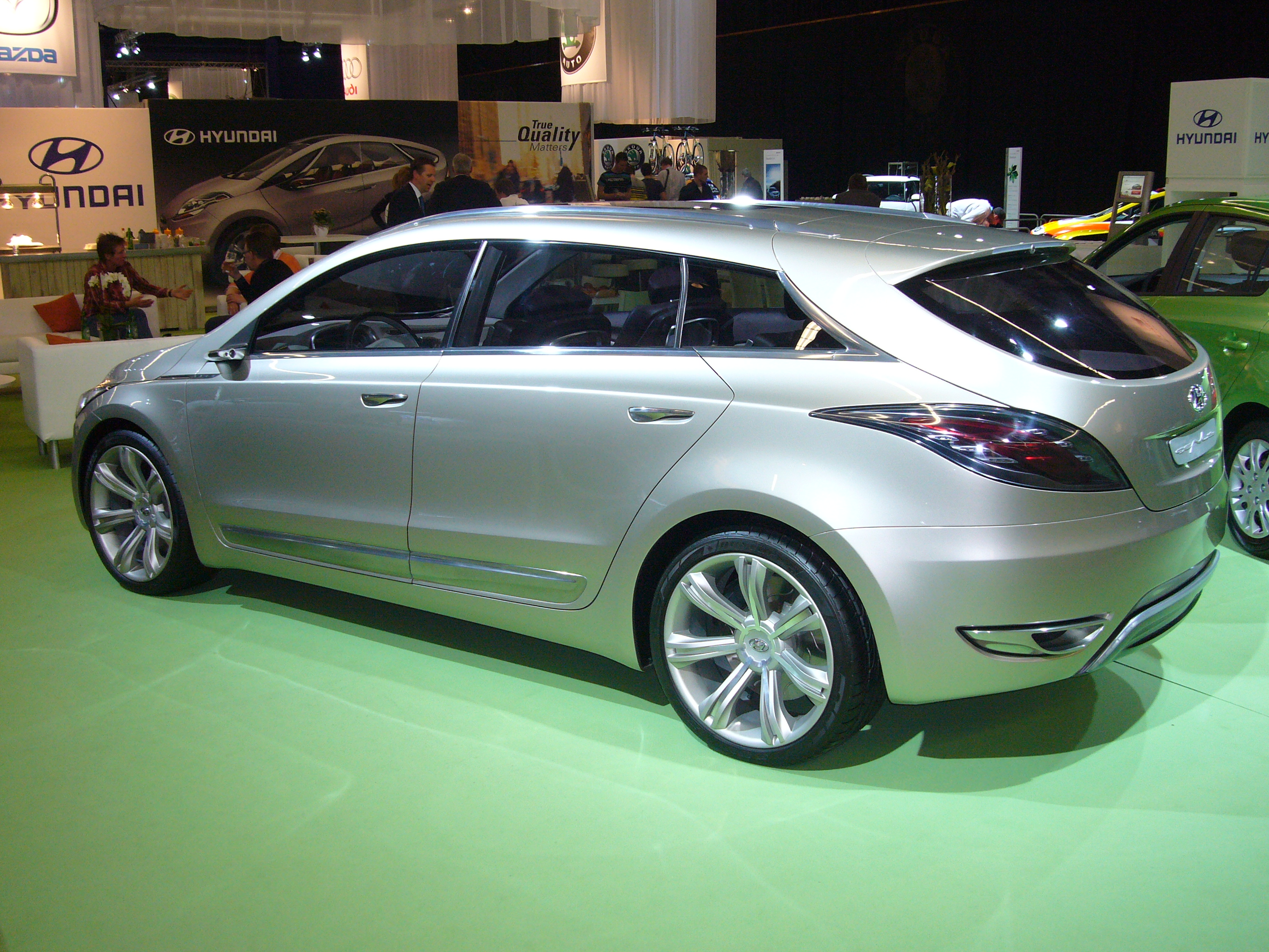 Side view of the Hyundai Genus at AutoRAI Amsterdam 2009